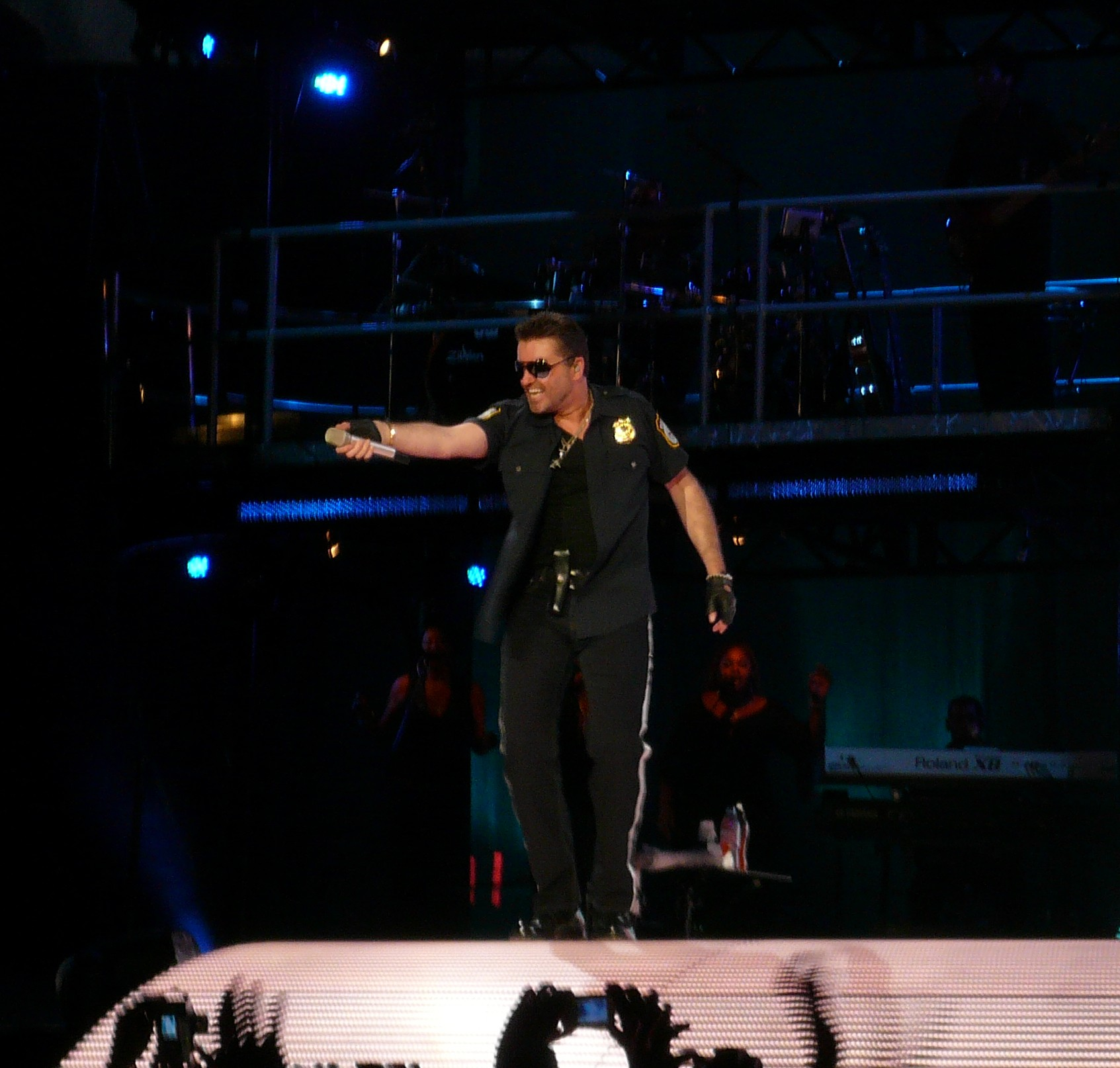 George Michael performing at the OAKA stadium (Athens, Greece) in 2007, for the 25 Live tour.